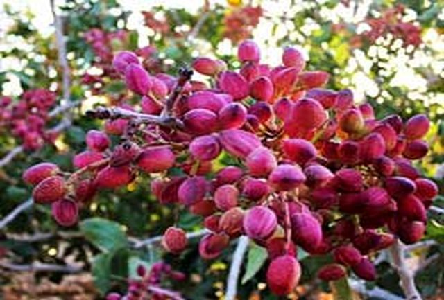 روستای خونان